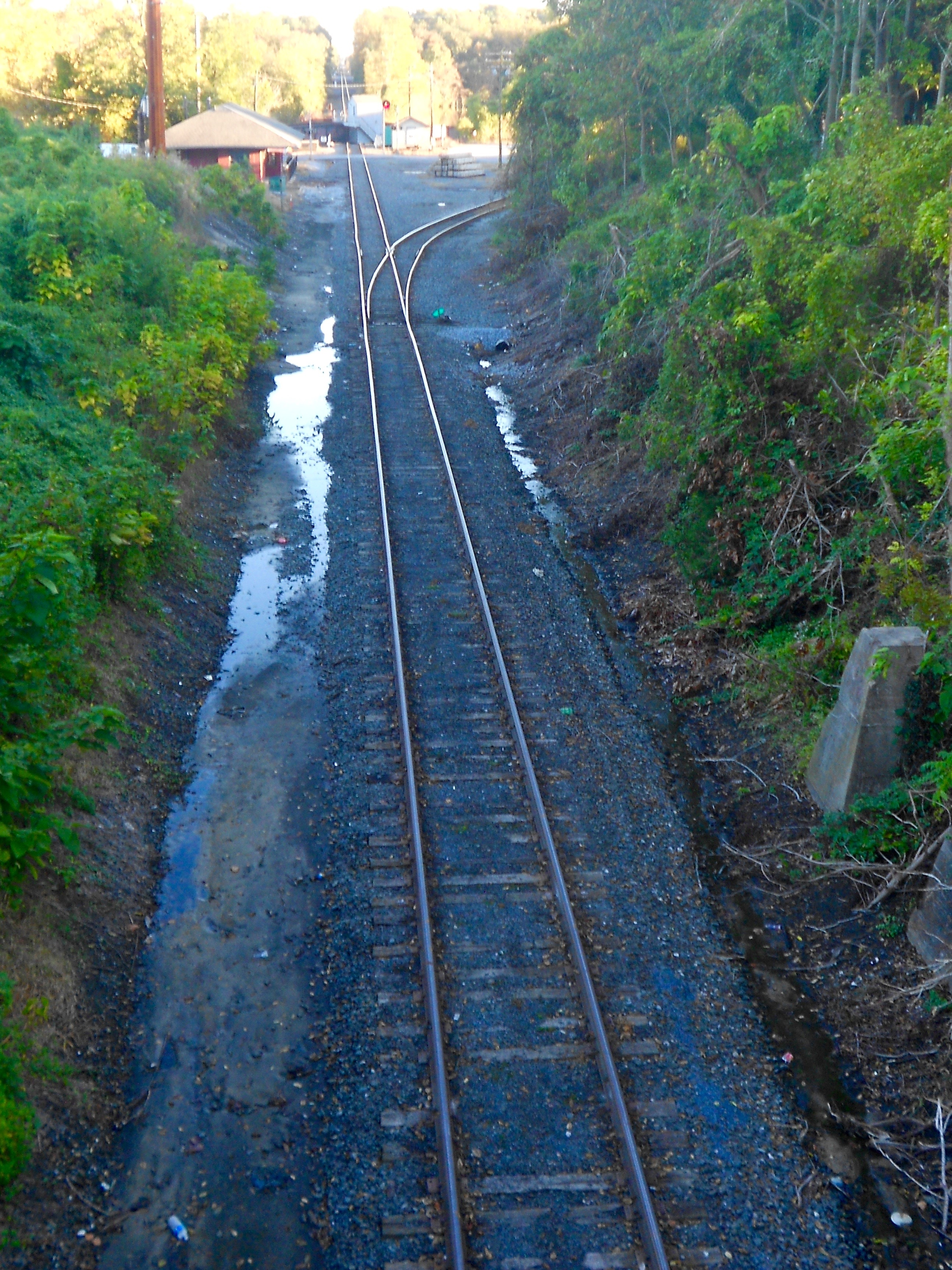 Seaford, Delaware Station pat of the Seaford Station Complex listed on the NRHP on June 15, 1978 (#78000930). Located by the Nanticoke River at Delaware Railroad Bridge (38°38′18″N 75°36′53″W) Seaford, Delaware. The "complex" part of the title includes the bridge, maybe 15 yards down the track, the track itself (the mainline), and a freight shed that's been torn down.